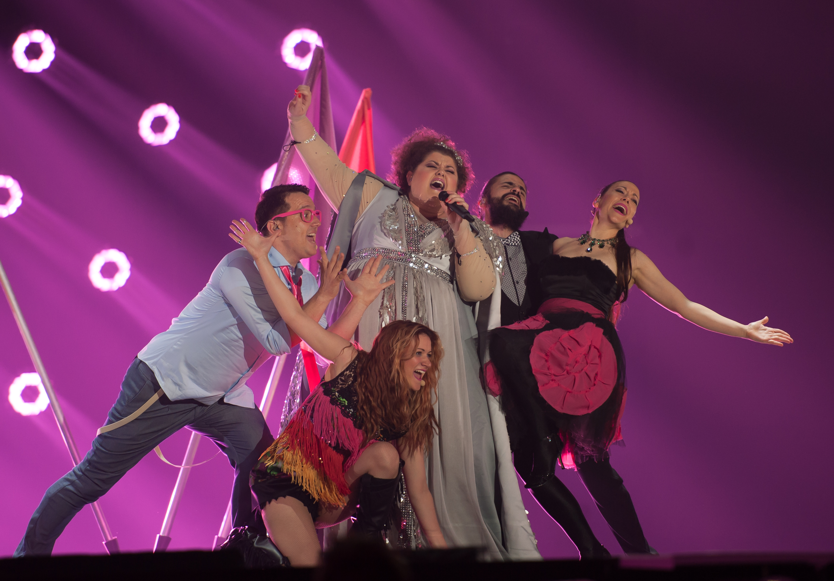 Eurovision Song Contest Vienna 2015: Bojana Stamenov